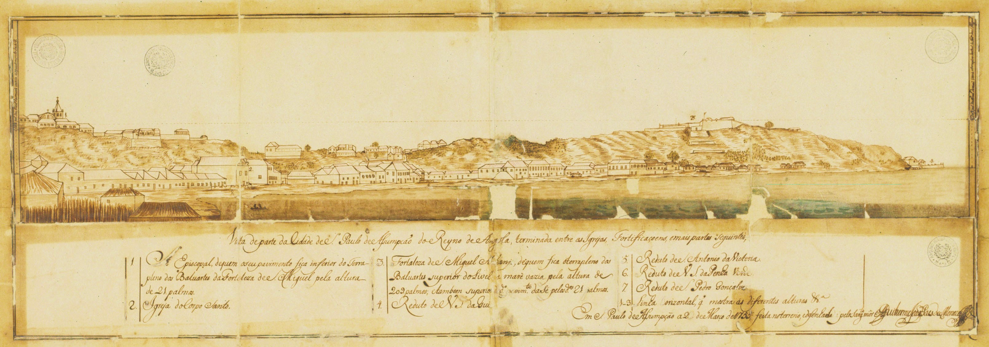 Cidade de São Paulo da assumpção de Loanda (now Luanda) Panoramic view of Luanda in 1755 by Guilherme Paes de Menezes.